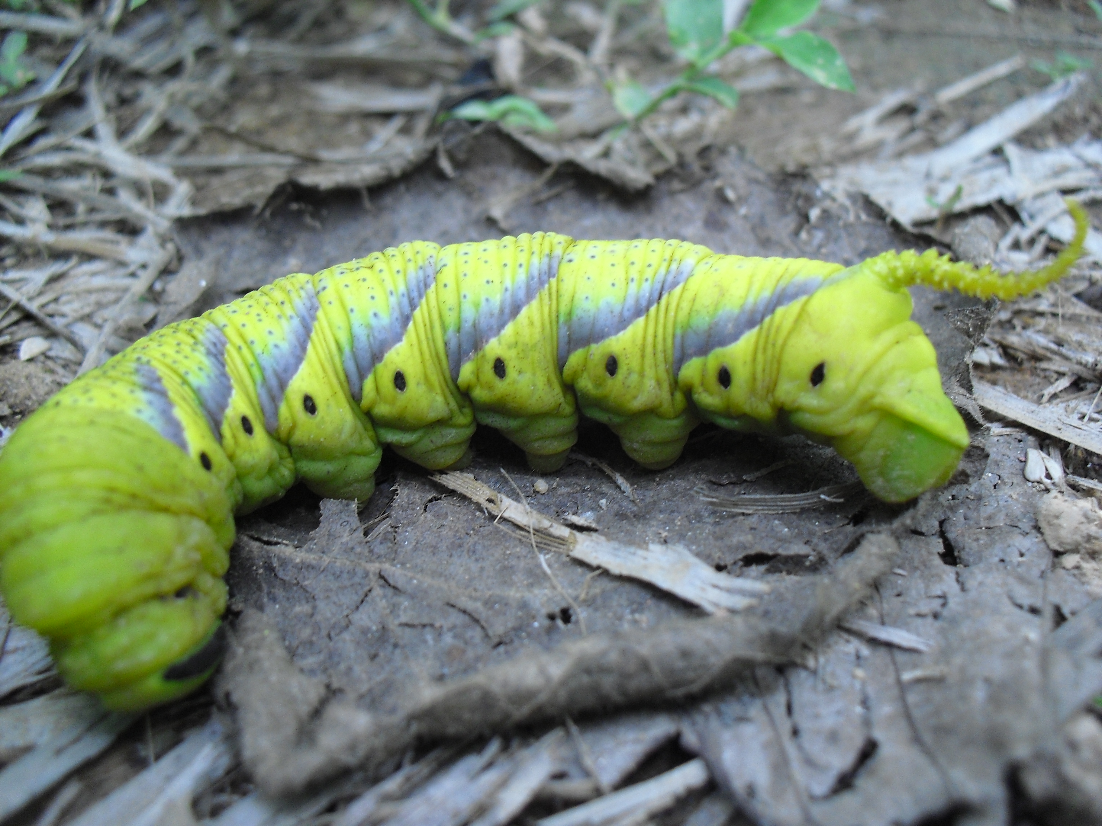 Caterpillar of Deaths-head Hawk-moth side view